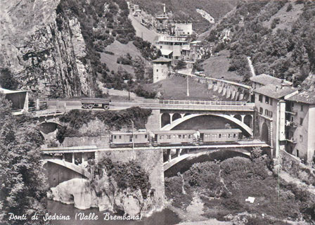 Sedrina bridges